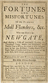 Book cover of The fortunes and misfortunes of the famous Moll Flanders &c. who was born in Newgate, and during a life of continu'd variety for threescore years, besides her childhood, was twelve year a whore, five times a wife (whereof once to her own brother) twelve year a thief, eight year a transported felon in Virginia, at last grew rich, liv'd honest, and died a penitent, London : W. Chetwood & T. Edlingby by Daniel Defoe (1722)